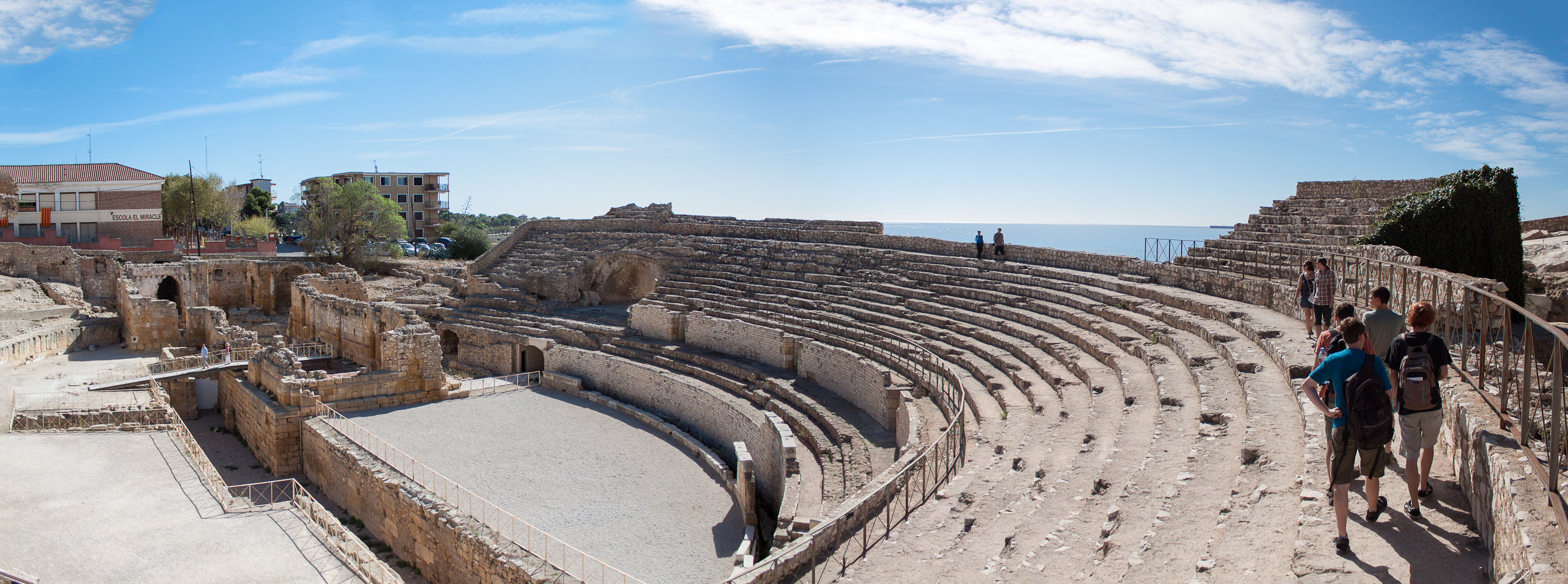 Panorama stitched from two images of the Amphitheatre in Tarragona. Depicted is the Amphitheatre itself and the ruins of the church that was built within it.